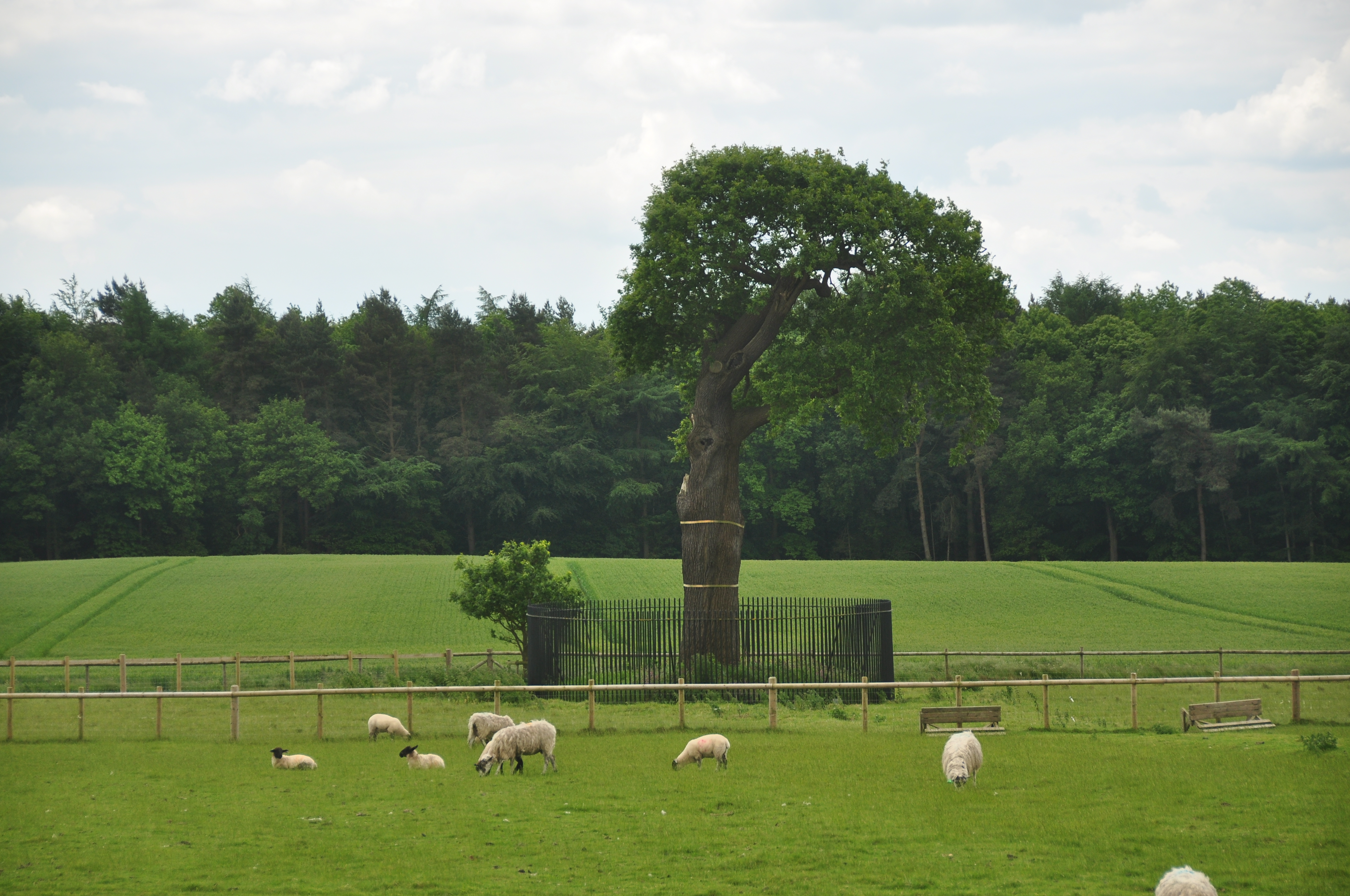 Royal Oak